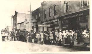 Big crowd in front of Canada Drug & Book on the1900 block of South Railway Street looking east towards Broad Street .